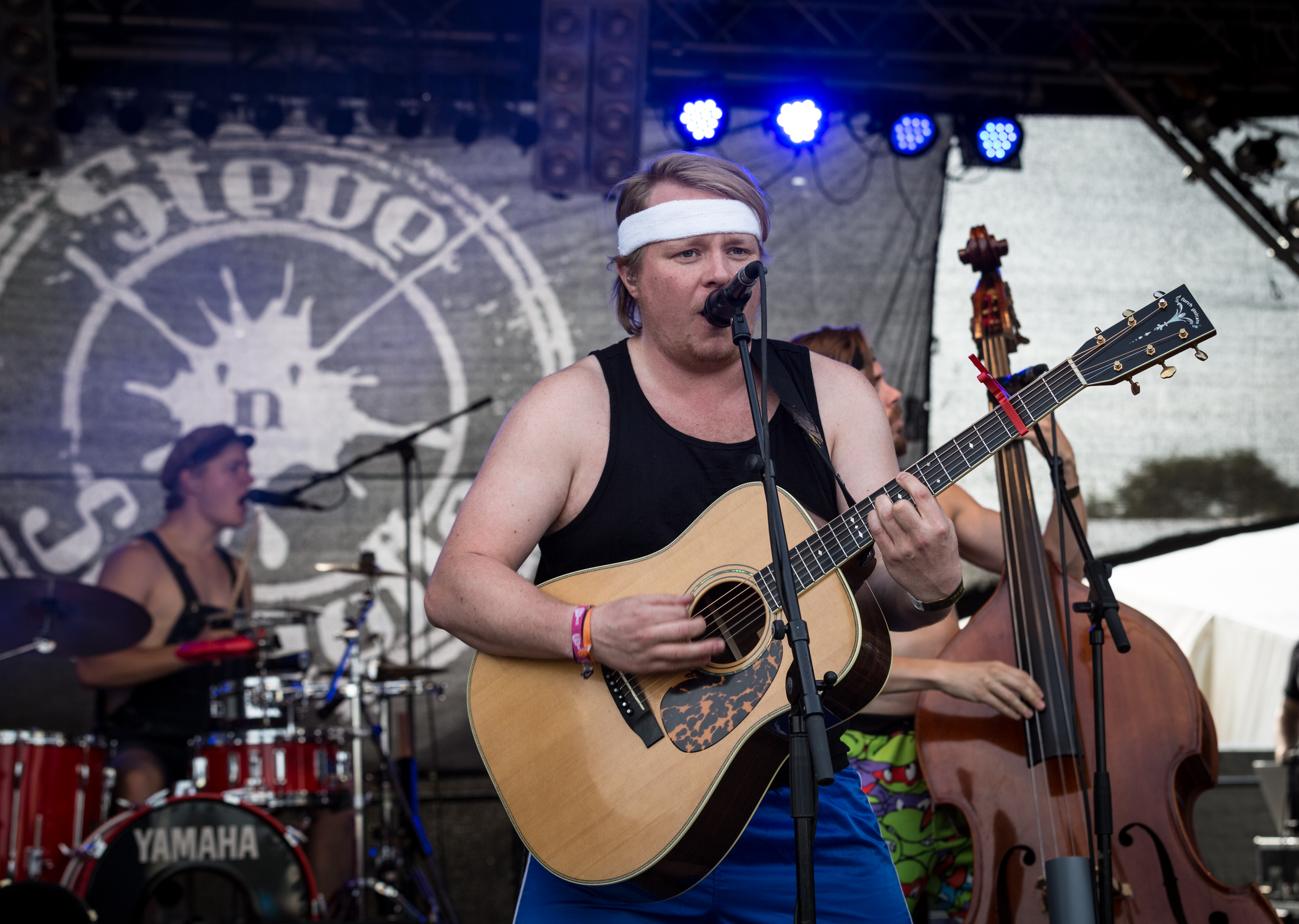 Steve N´Seagulls - Wacken Open Air 2015